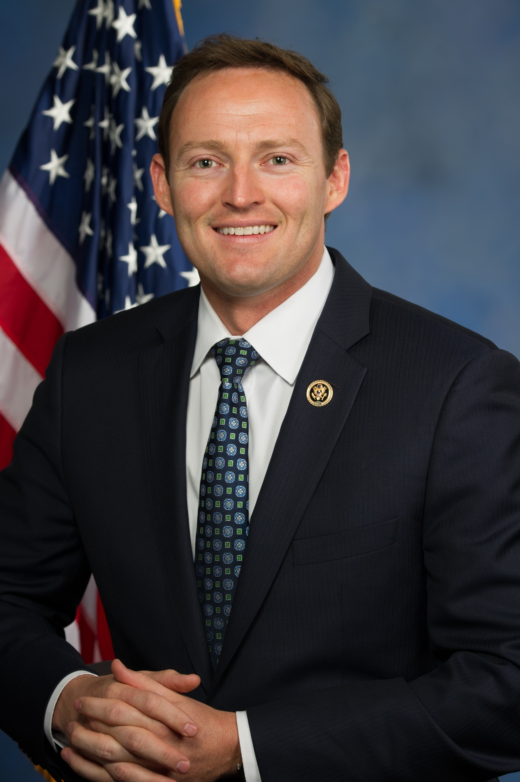 Patrick Murphy, official portrait, 114th Congress